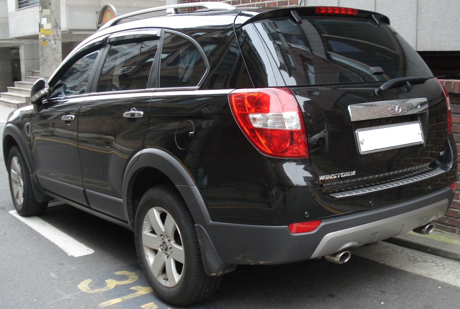 Daewoo Winstorm